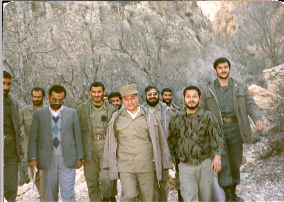 Akbar Hashemi Rafsanjani and Abbas Mirza Abutalebi in front line of Iran-Iraq War.